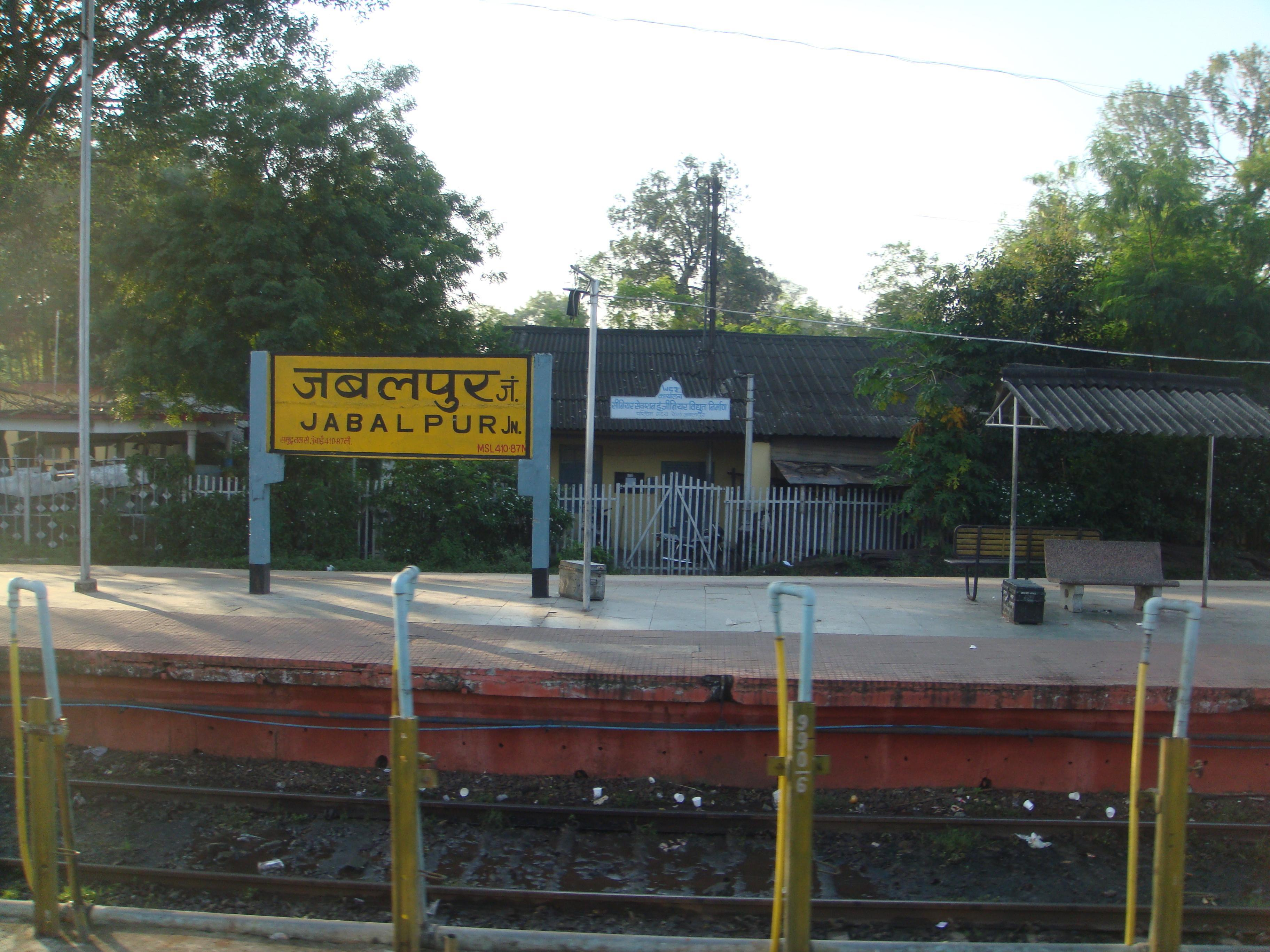 Jabalpur stationboard